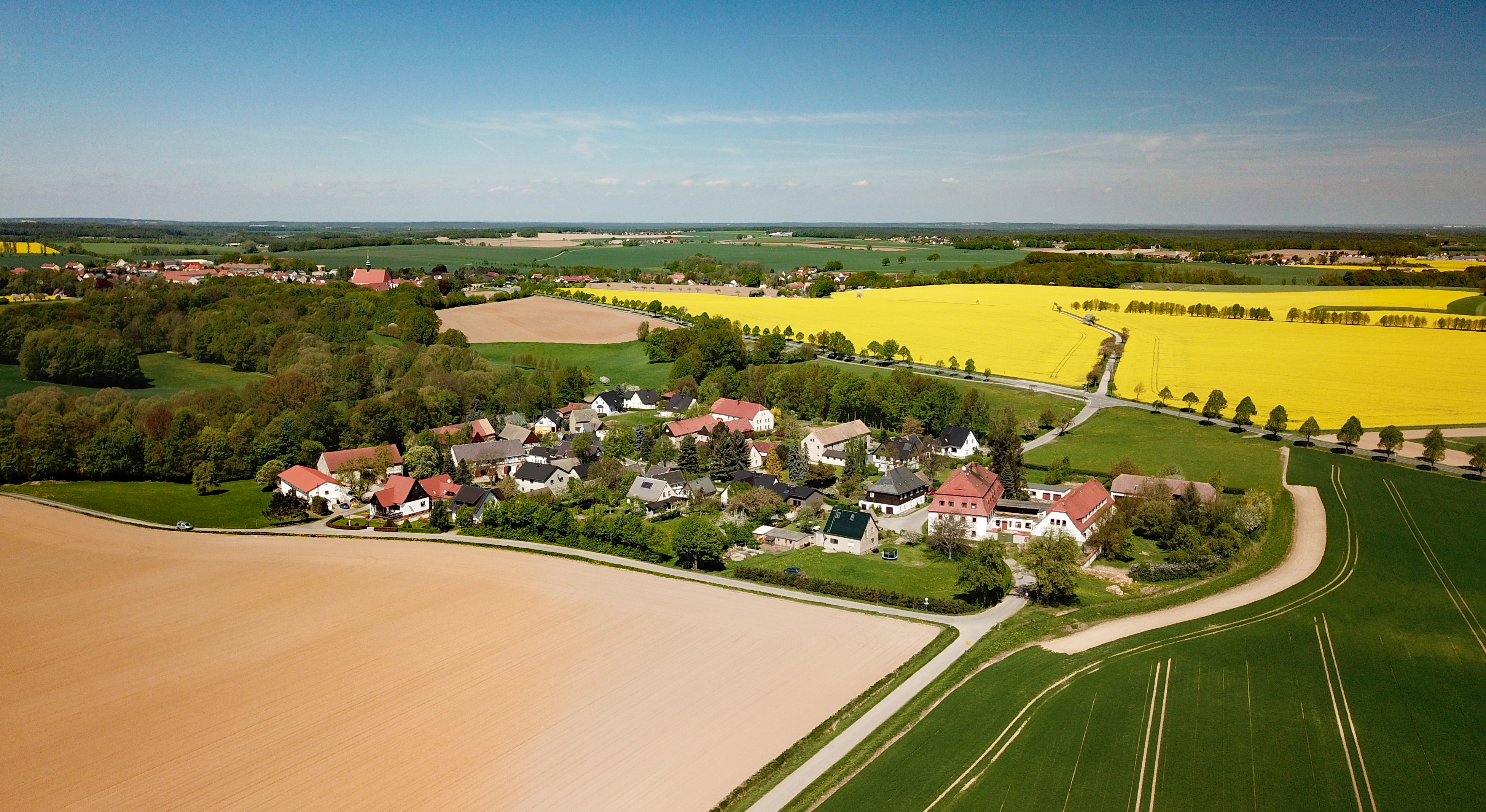 Schweinerden (Panschwitz-Kuckau, Saxony, Germany) Hornjoserbsce: Powětrowy wobraz Swinjarnje